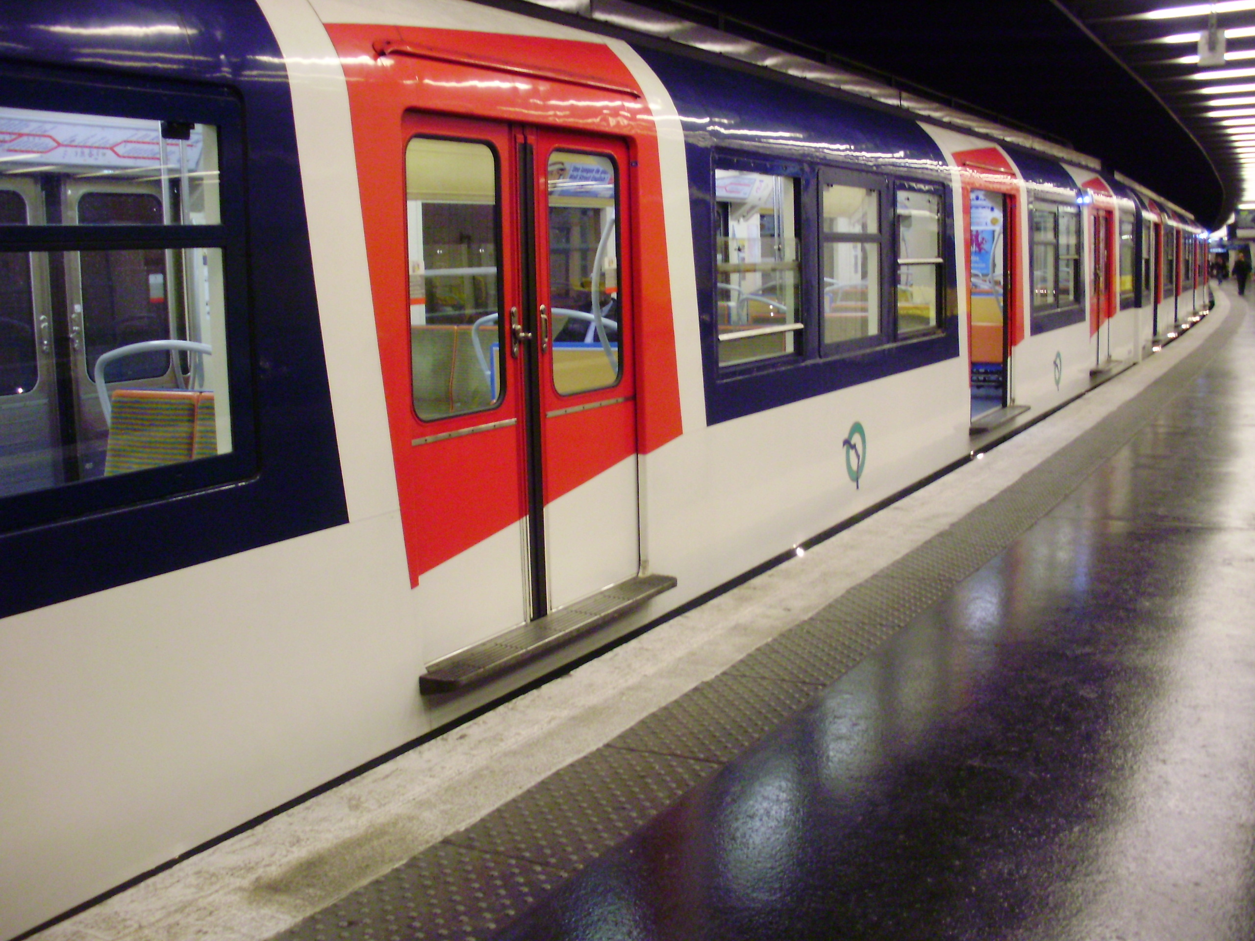 Saint-Germain-en-Laye station, Yvelines, France (MS 61 unit on track 4)